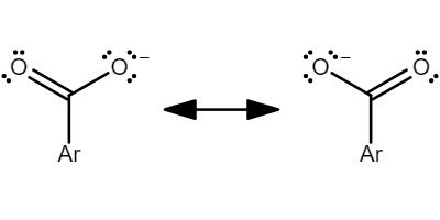 The negative charge is delocolised through 2 oxygens. Hence there is almost no -M effect. Moreover, it has a +I effect because of the negative oxygen